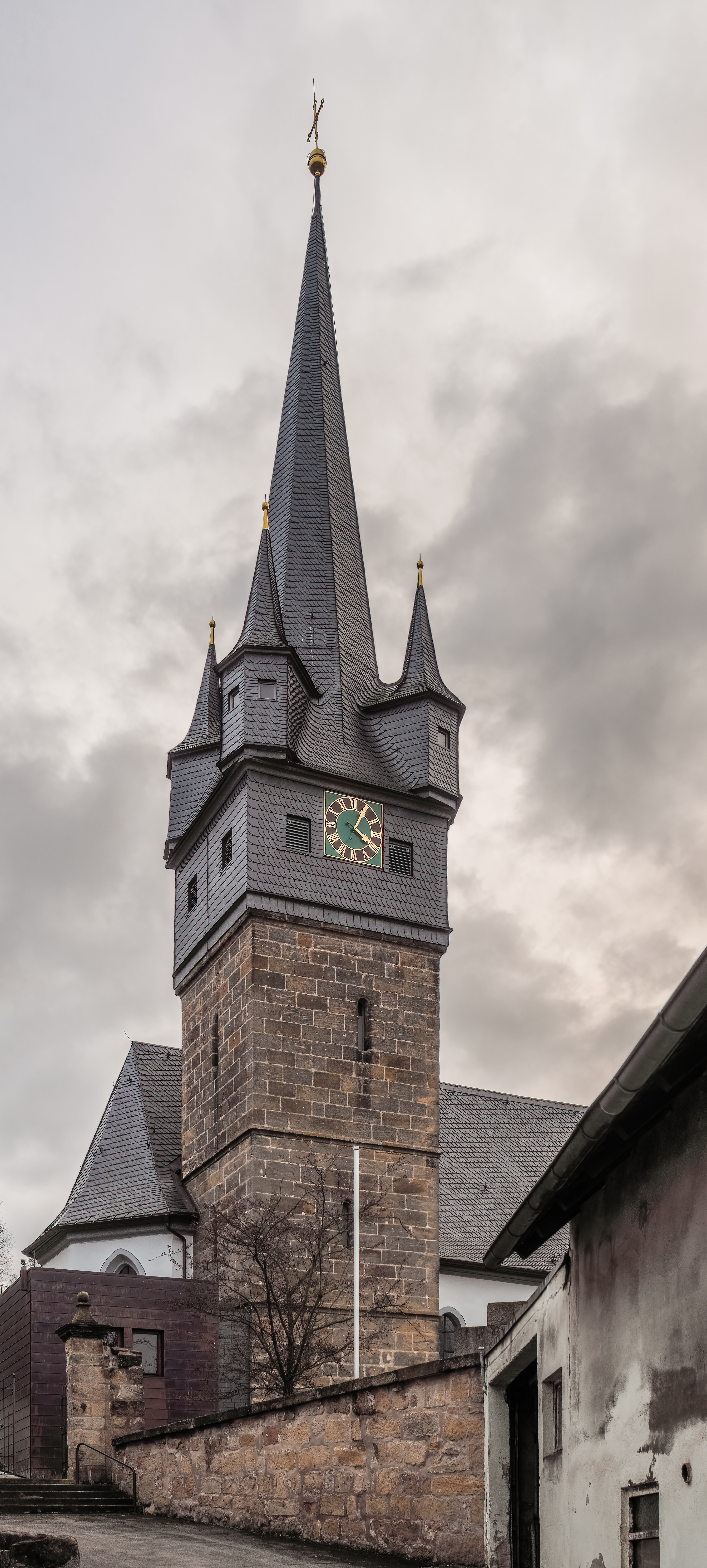 Catholic Church of St. Mary Magdalene in Unterleiterbach